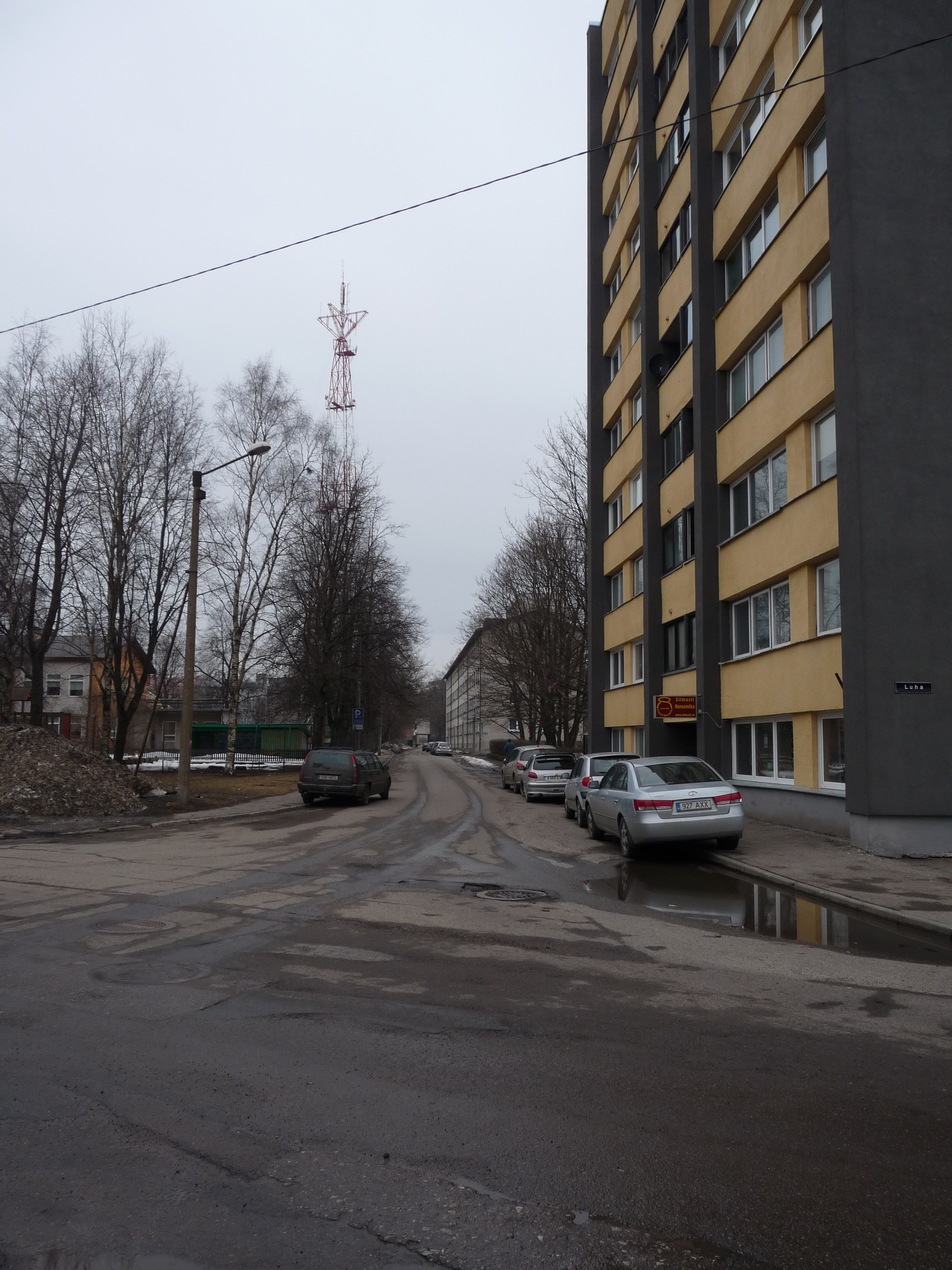 Virmalise street in Tallinn